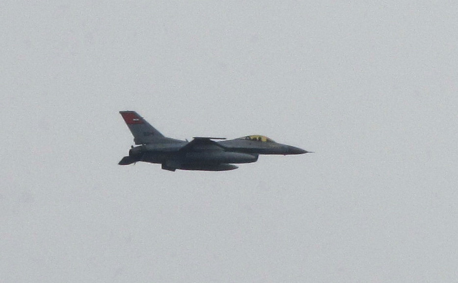 An Egyptian Air Force F-16 flying over Cairo during the w:2011 Egyptian Protests.